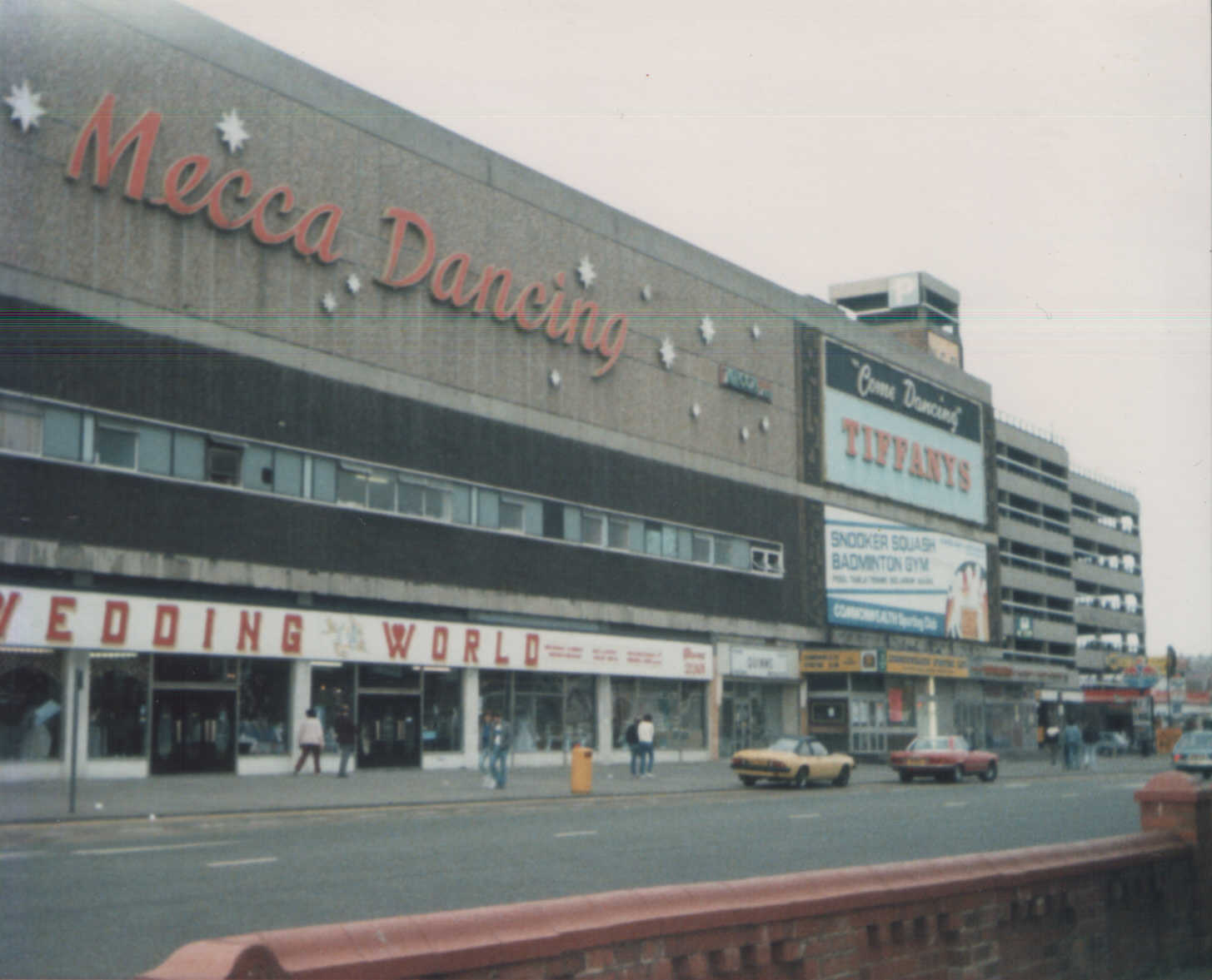 Picture of exterior of Blackpool Mecca complex